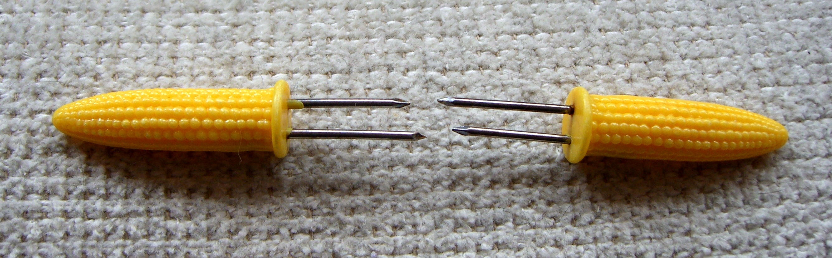 Handles for eating corn on the cob.